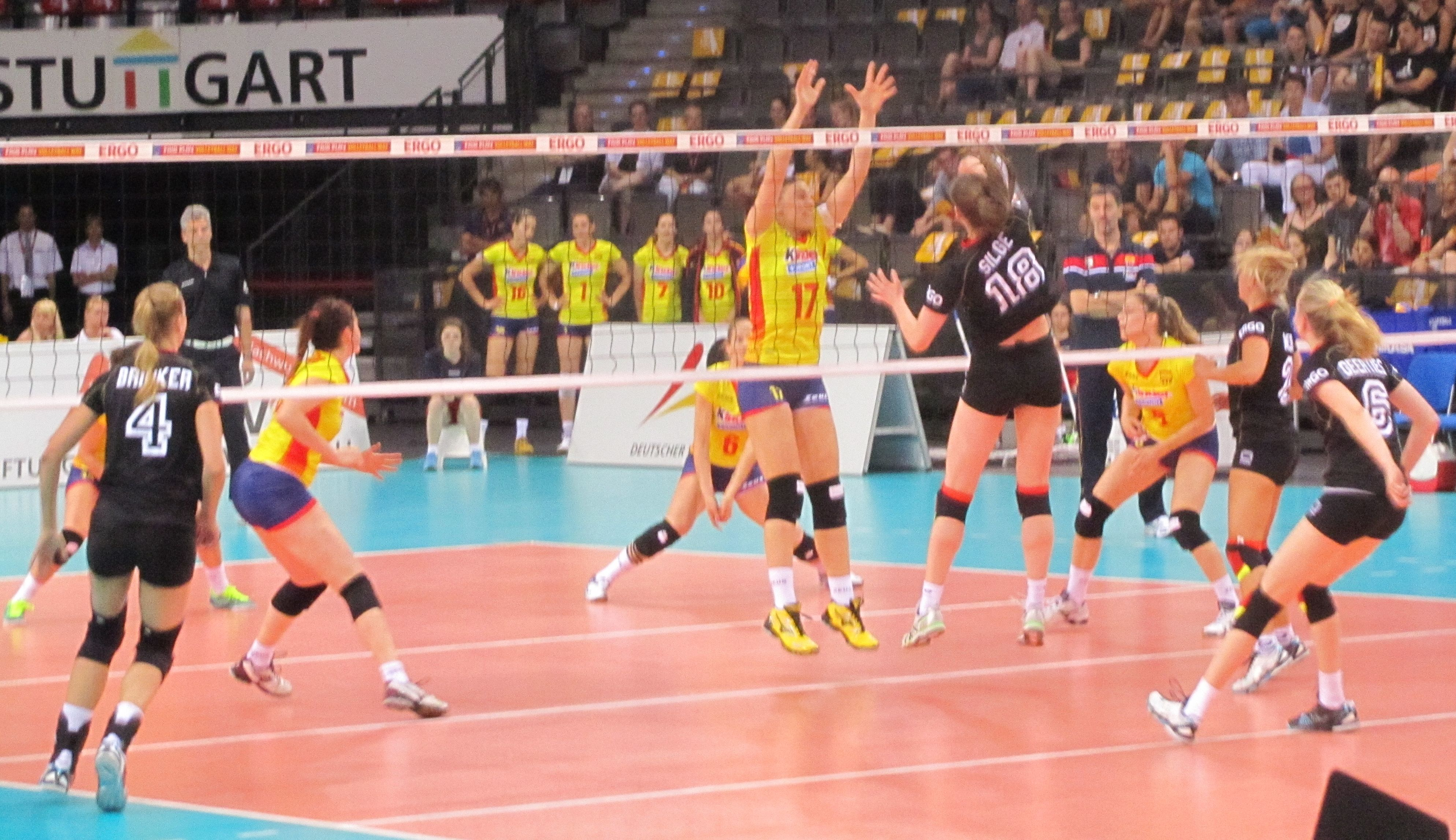 scene from the European League Germany vs. Spain 2014 in Stuttgart with Wiebke Silge attacking at the net